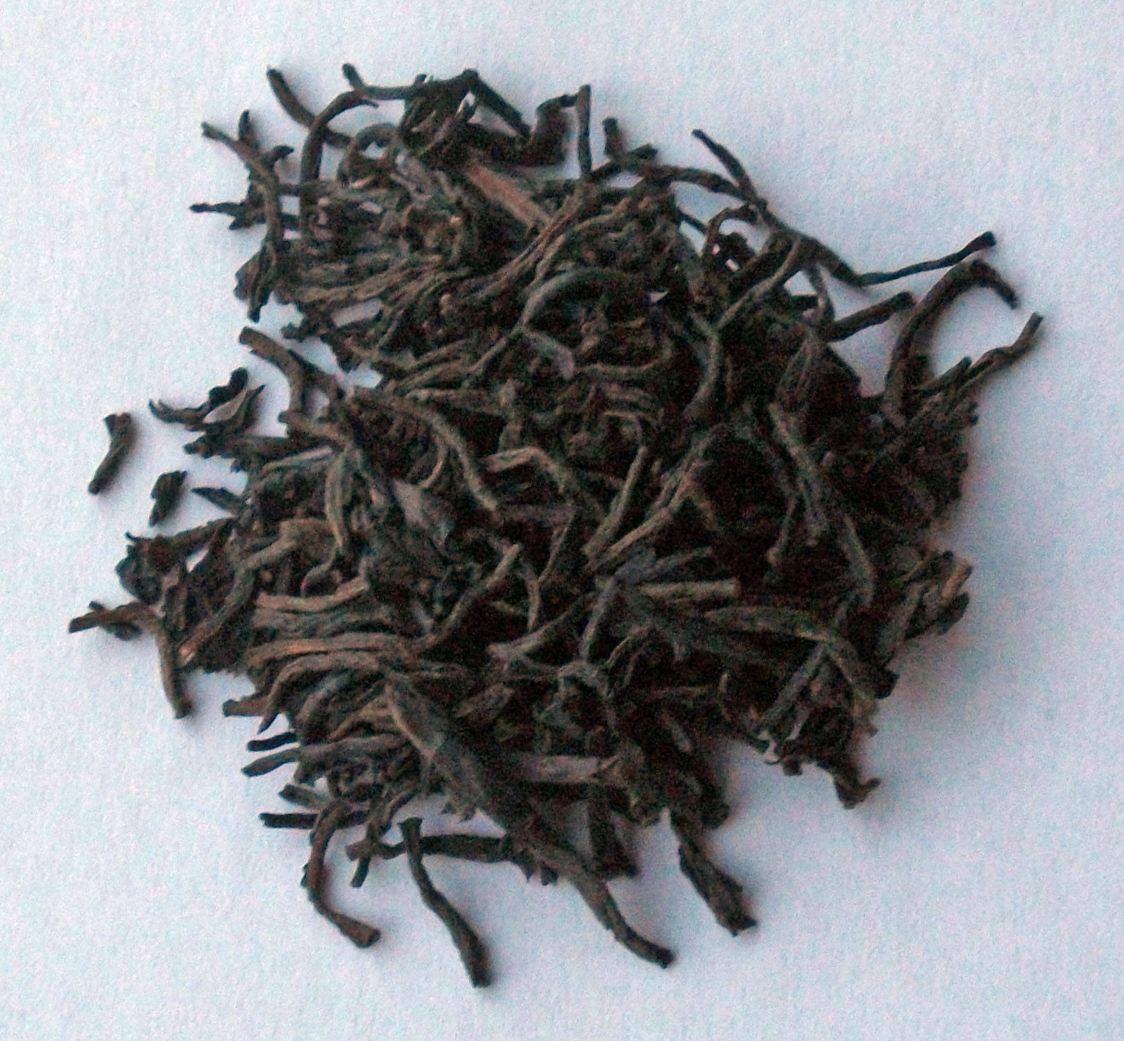 Sample of Ceylon Pettiagalla tea.